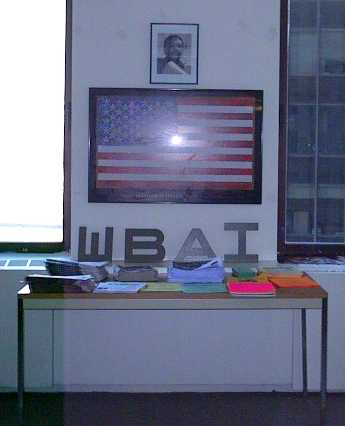 WBAI at 120 Wall Street, NYC, USA, taken October 9 2004